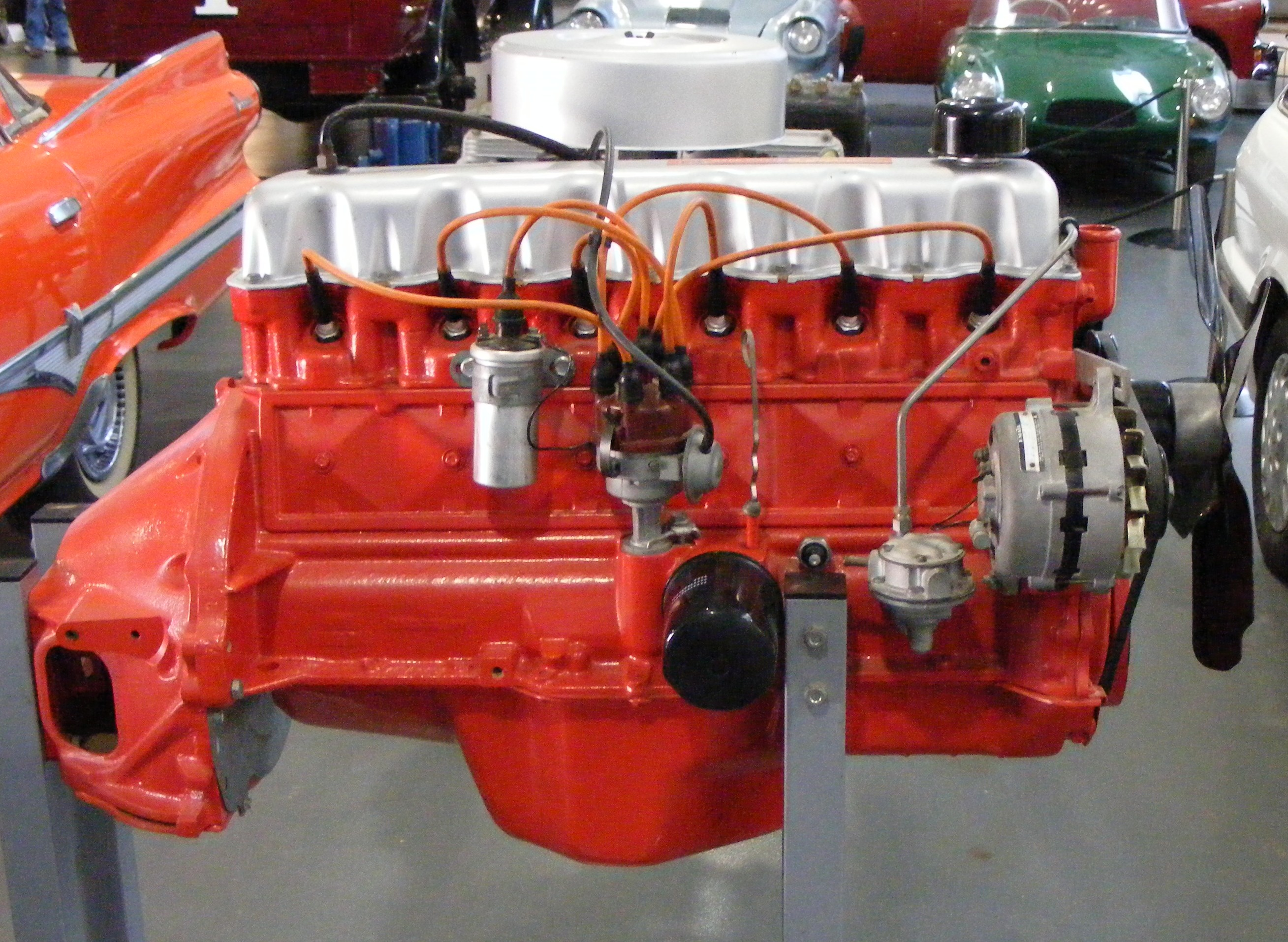 Chrysler "hemi" 245. Made from 1970 by Chrysler Australia at Lonsdale, South Australia. This is the prototype, donated by Mitsubishi Australia and on display at the National motor museum, Birdwood, South Australia